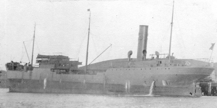 S.S. Acme built in 1916 by the Union Iron Works of San Francisco, for the Standard Oil Company, this ship served the United States Navy as USS Abarenda (IX-131) in 1944-1946.